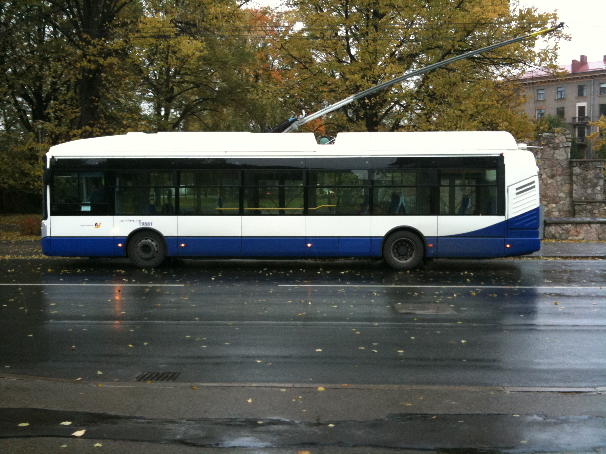 Trolleybus in Riga, Latvia.